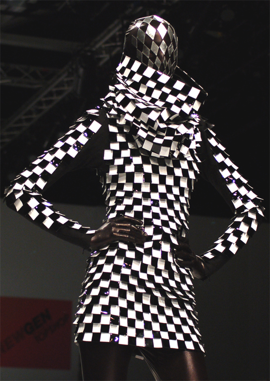 Gareth Pugh design shown at London Fashion Week (Spring 2007 collection)